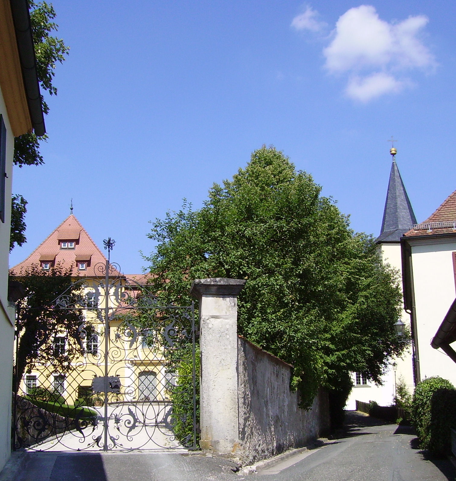 Description: Unterleinleiter in (Franconia) Source: own photography Date: August 2005 Author: --Immanuel Giel 11:40, 13 September 2005 (UTC) Other versions: none